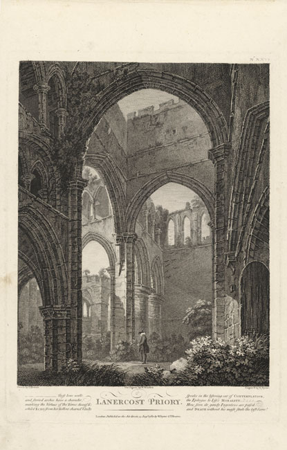 LANERCOST PRIORY